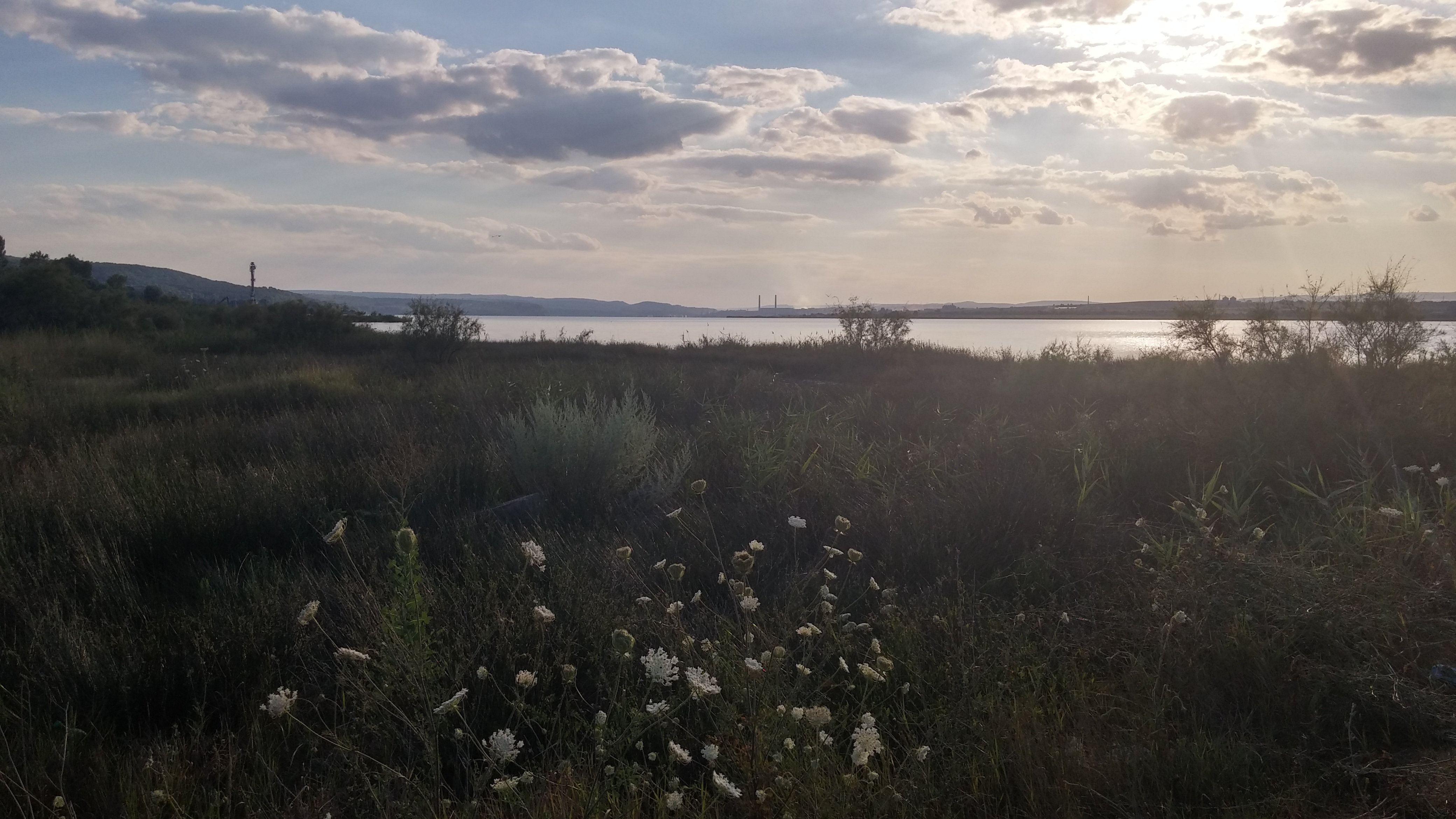 View of lake Varna. In the background - the Varna Thermal Power Plant.